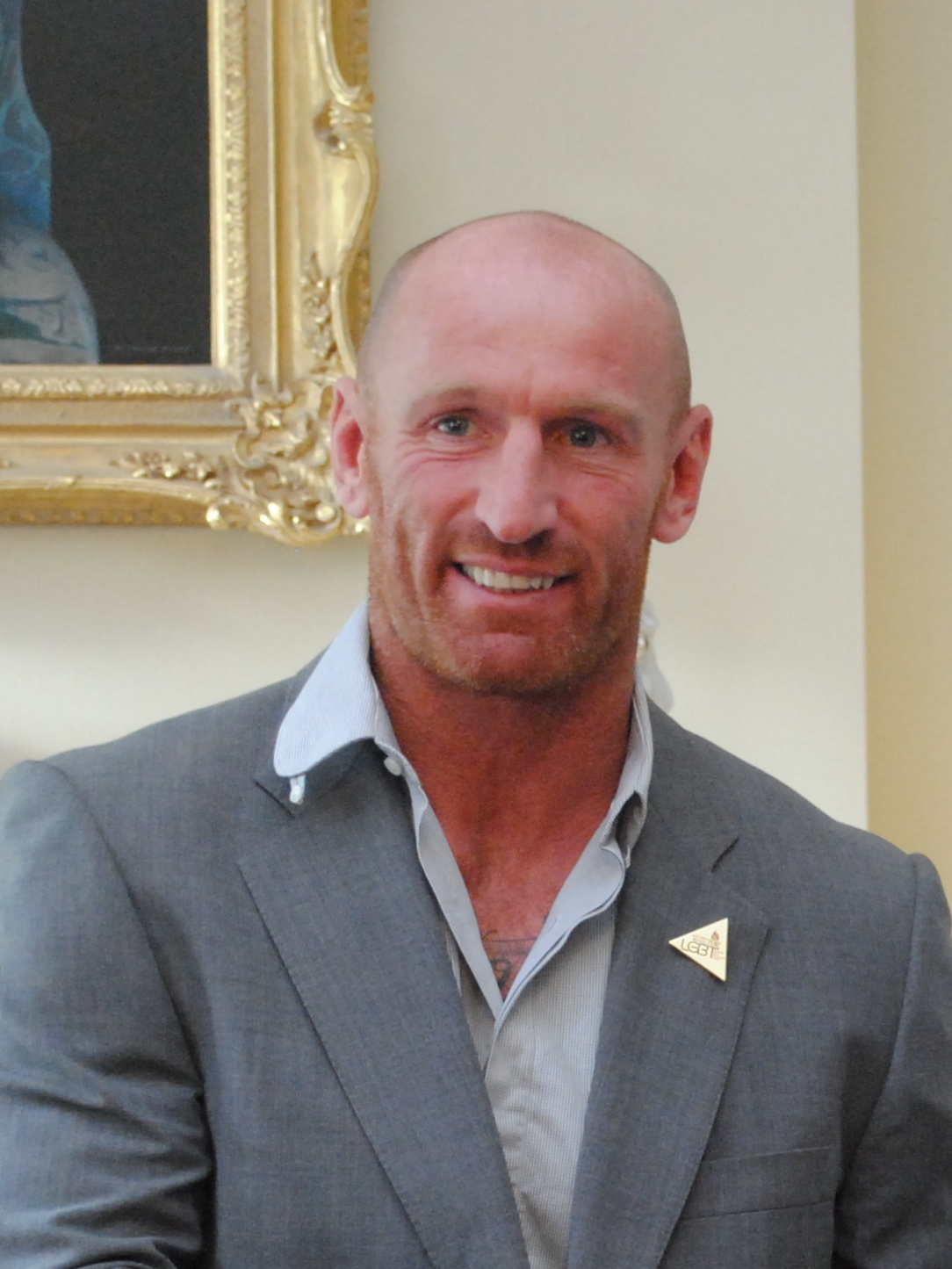 Rugby player Gareth Thomas at an LGTB reception at No10 to launch new campaign to kick homophobia and transphobia out of sport.